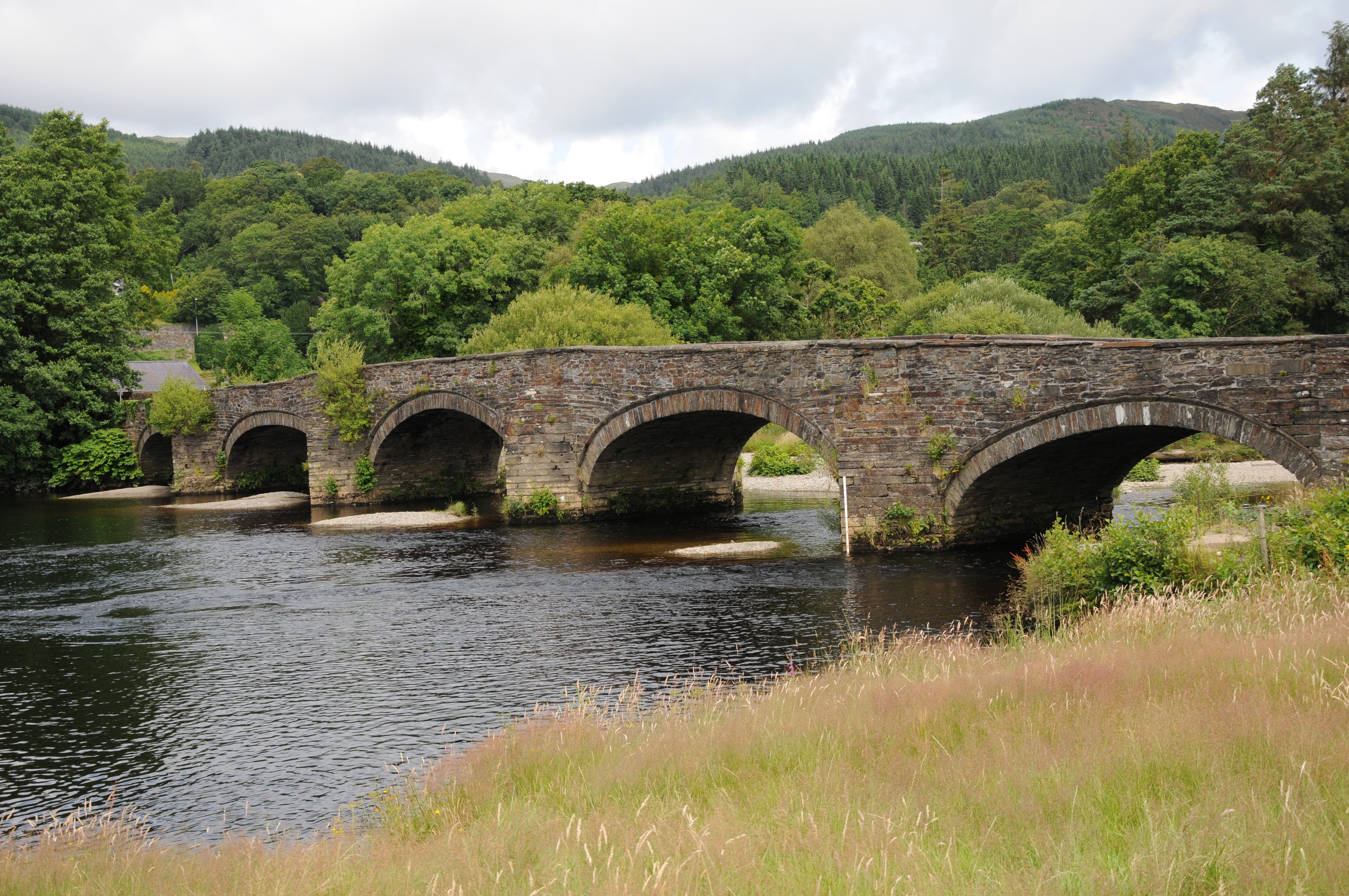 Bridge over river mawdach - Llanelltyd, near Dolgellau, North Wales